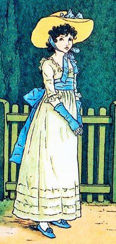 Cropped, adjusted version of PD image from Commons to illustrate a Wiki article